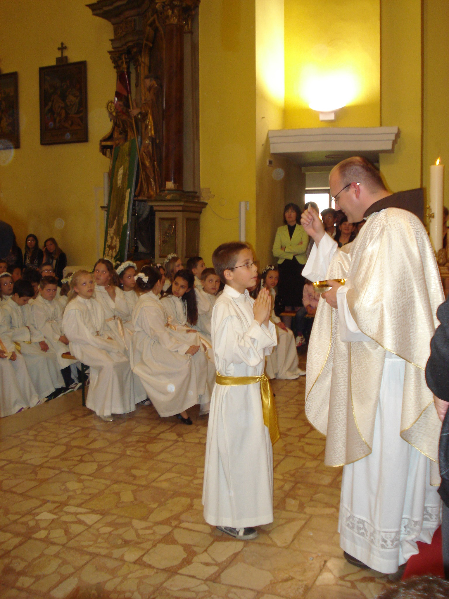 2014 First Communion in Čakovec, Croatia - sacramental bread takingHrvatski: Prva pričest u Čakovcu, Hrvatska, 2014. godine - davanje hostije